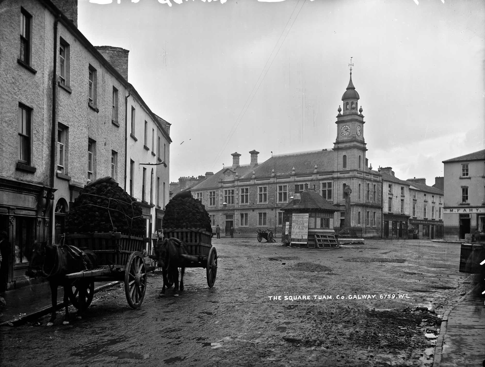 A topical subject even if the shot is over 100 years old. Bringing in the turf for fires was an important source of fuel for most households and here are two fine loads in the Square in Tuam, County Galway! Somewhat ignoring the fossil fuel laden carts, today's discussion focused on the posters we see - for the Ormonde family's "Vivograph" entertainments (which we learned were a form of early cinema which visited towns around the country and indeed Scotland in the first years of the 20th century). We also got some insight into the Tuam Town Hall pictured to the rear, which was significantly remodelled in the decades immediately before this picture. We also learned about the now 900 year-old Tuam High Cross which was rebuilt and moved to the Square in the 19th century, before being moved again (out of the middle of the now roundabout) in the 1990s. Photographer: Robert French Collection: Lawrence Photograph Collection Date: c.1880-1900 (likely c.1900 based on date on poster and comments below) NLI Ref: L_ROY_06759 You can also view this image, and many thousands of others, on the NLI’s catalogue at